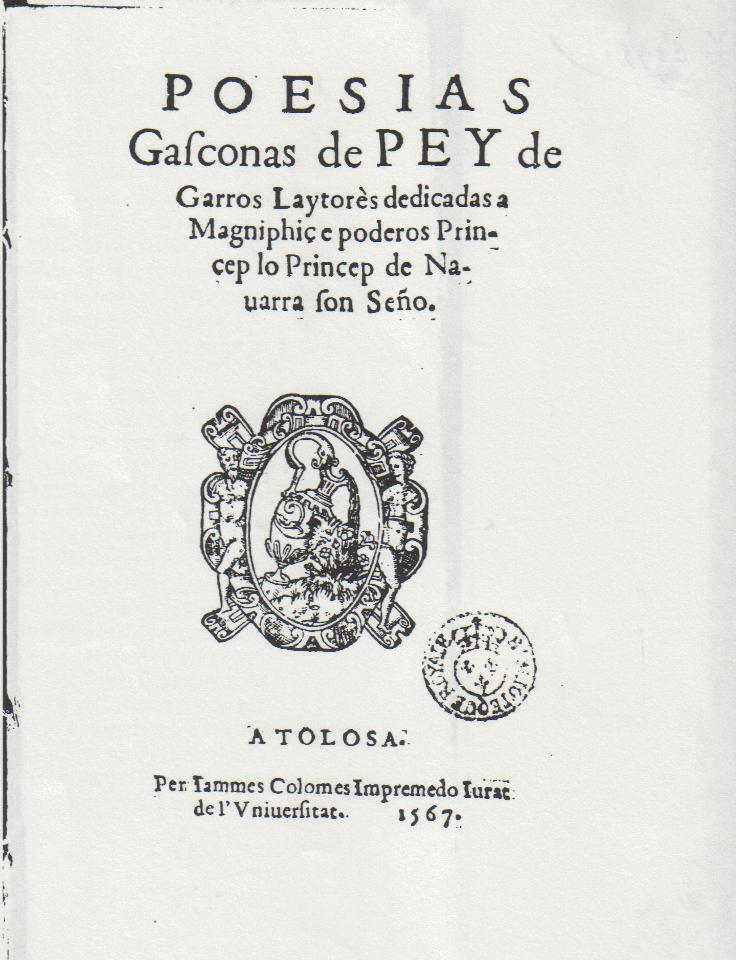 L'obra de Garros qu'ei libra de dret (mort mantun segles)